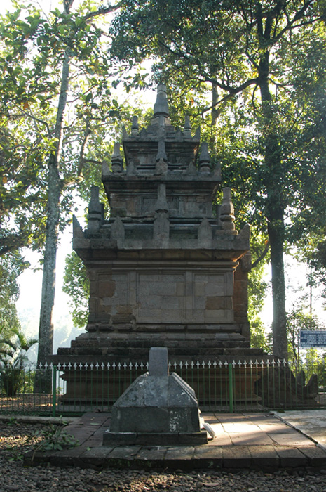 Candi Cangkuang, Garut, West Java, Indonesia